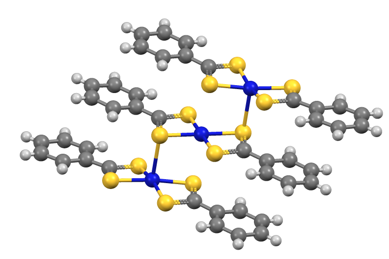 portion of the polymer [Ni(S2CPh)2]n.